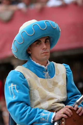 Palio di Siena's jockey Silvano Mulas.